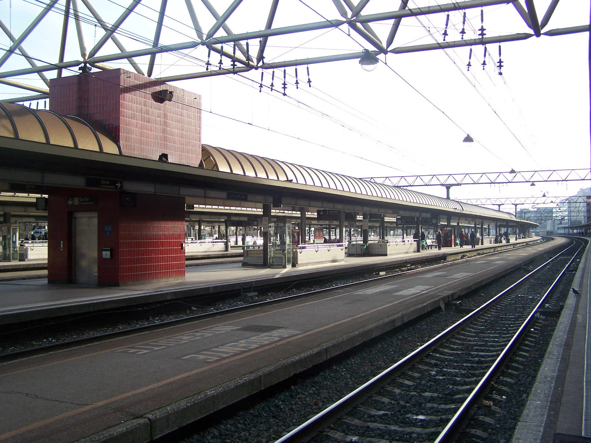 Lyon Part-Dieu station's platforms during a short time of low-traffic, on December, 30th 2006.